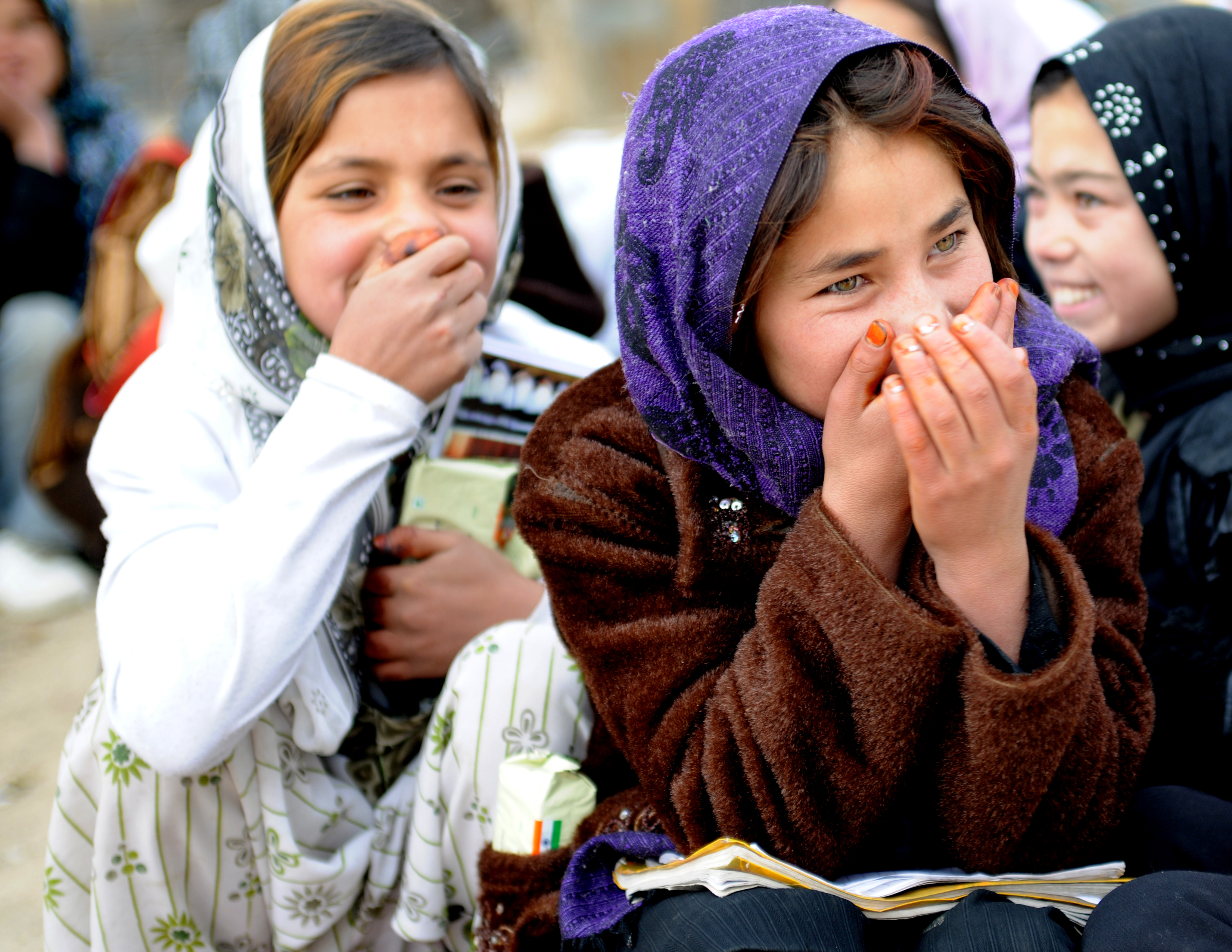 Girls from the district of Khawja Omari participate in classes being held outside at the all-girls school. Provincial Reconstruction Team-Ghazni visited the school that day to meet with school officials and discuss upcoming projects. (Joint Combat Camera Afghanistan Photo by Master Sgt. Sarah Webb)